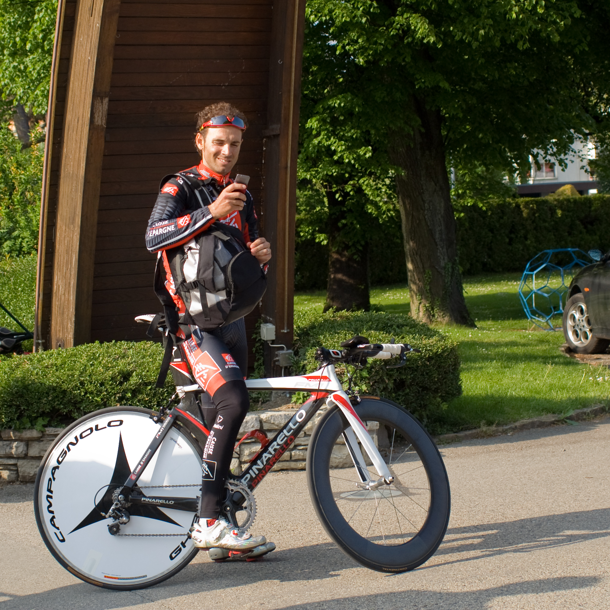 Tour de Romandie 2009 - 3rd stage - team time trial